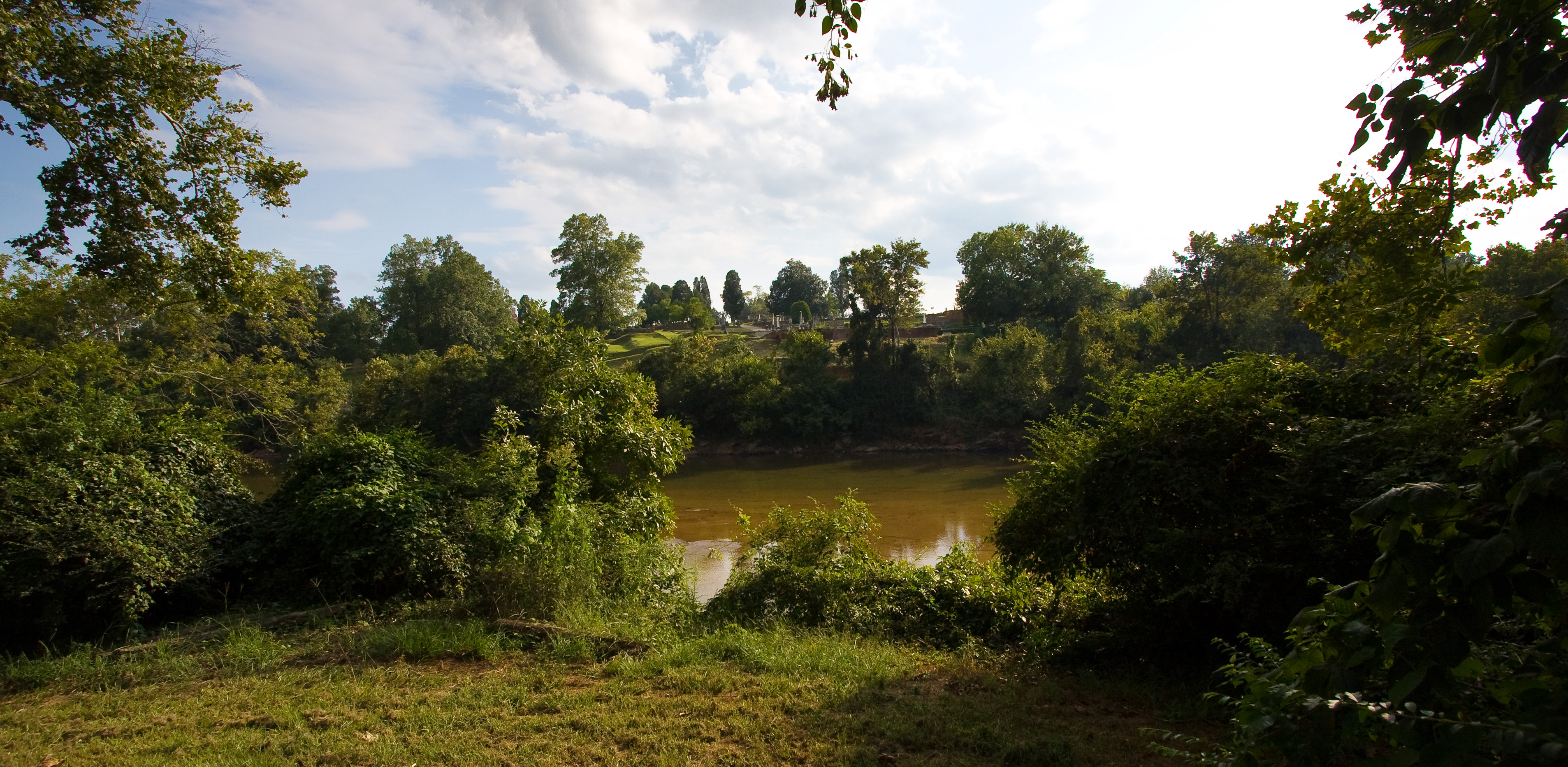 A view of Rose Hill Cemetery from the Ocmulgee Riverwalk.